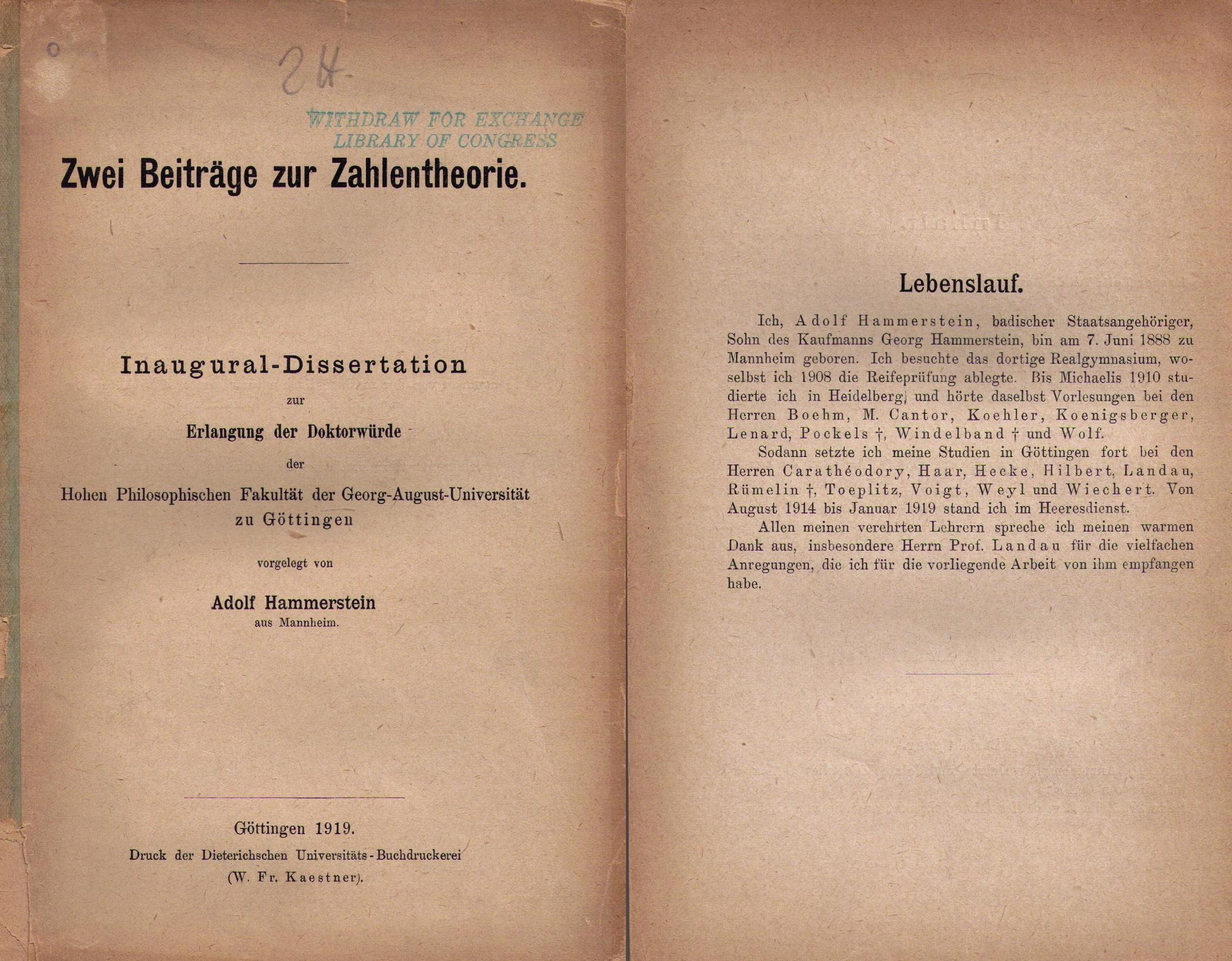 Front and back of PhD thesis of Adolf Hammerstein (mathematician)